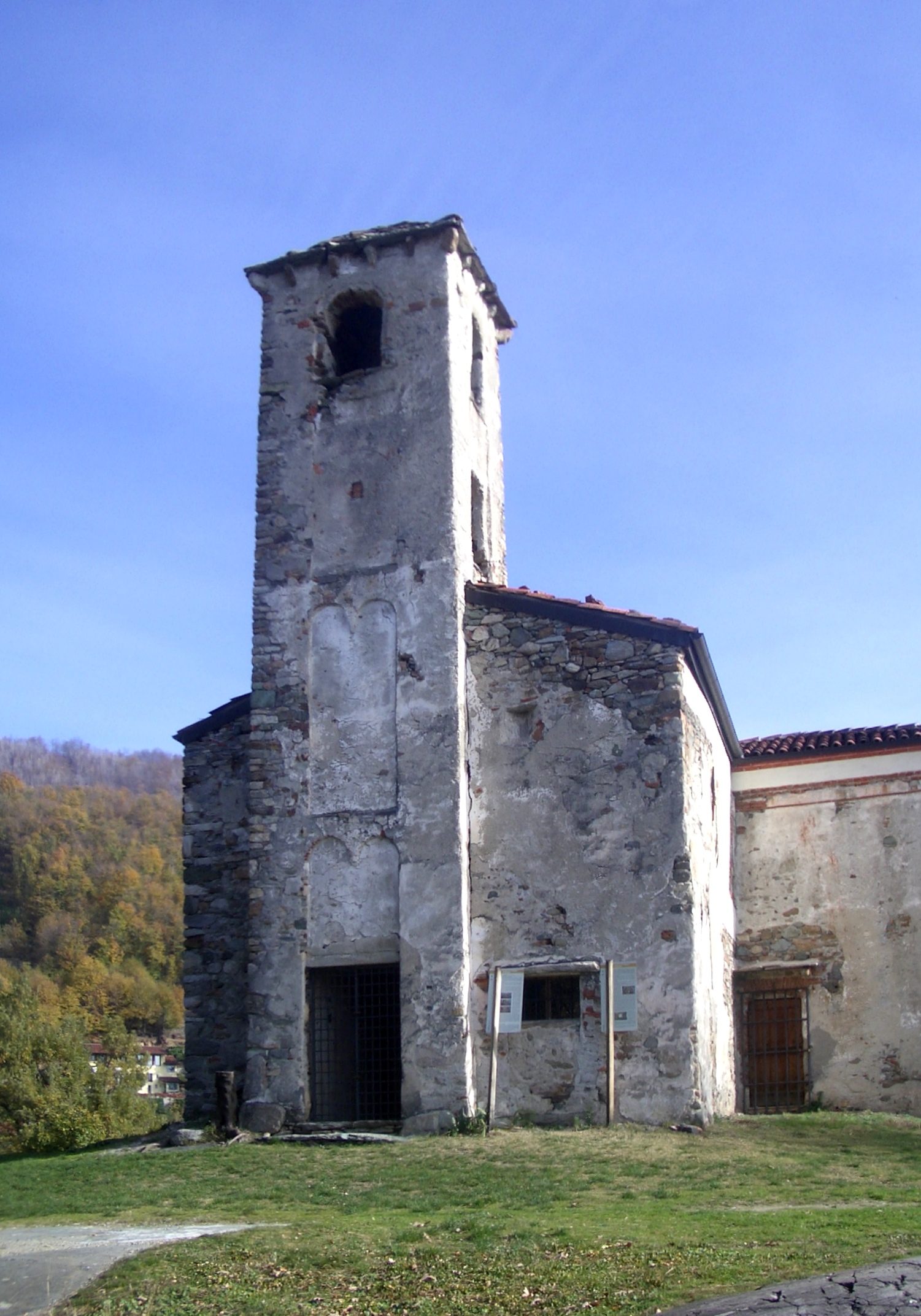 “Church of Santo Stefano in Sessano ”, Chiaverano, Turin, Italy